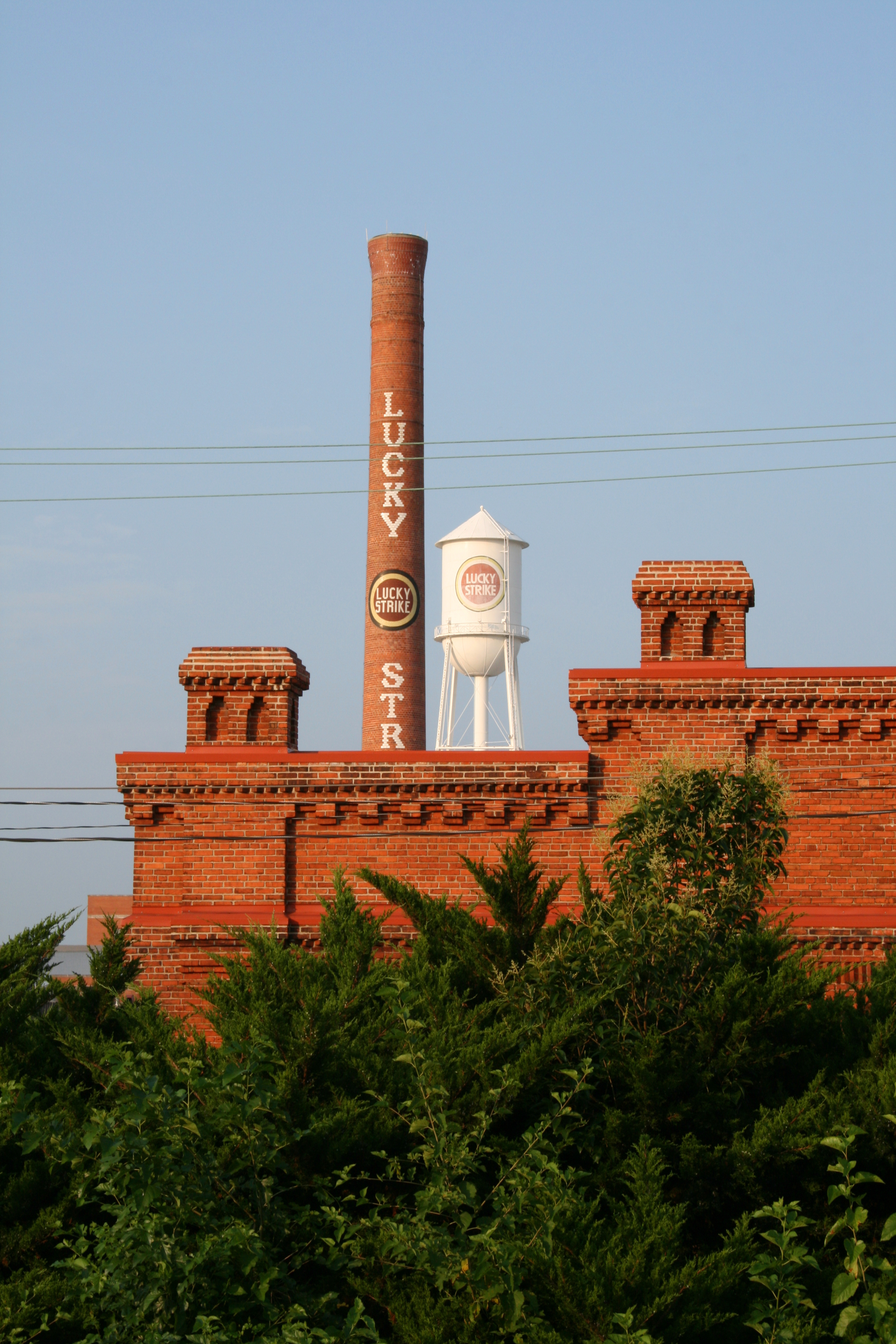 Lucky Strike chimney and water tower of the American Tobacco Historic District seen from the railroad in Durham, North Carolina.